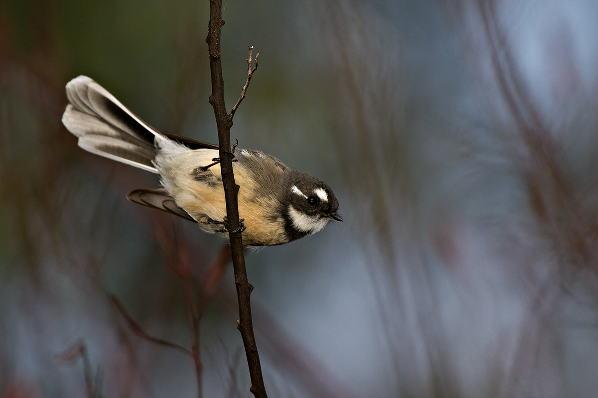 Strangways Vic.